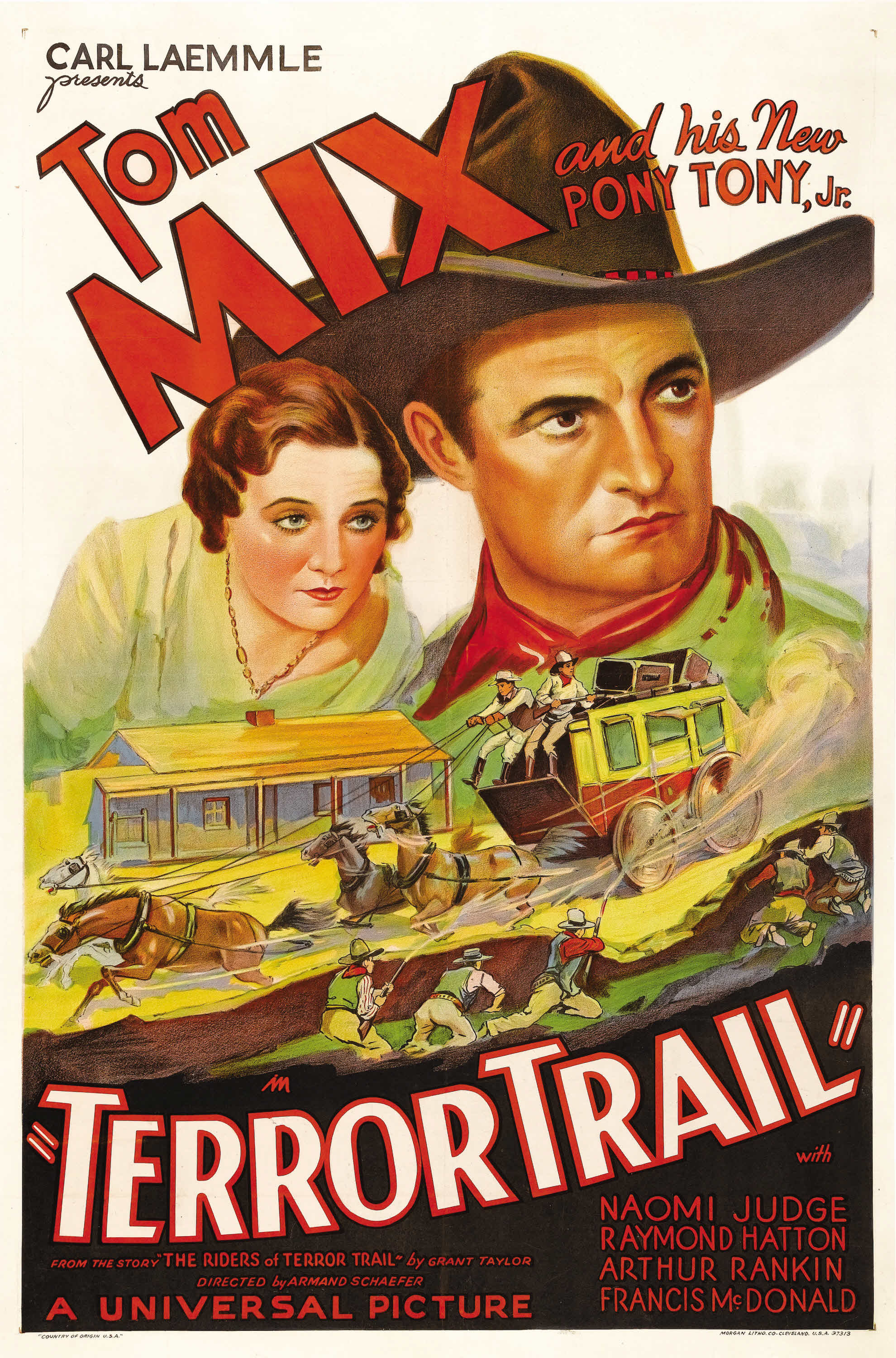 Poster for the 1933 film Terror Trail. There are no copyright marks on the poster. At bottom left is Country of Origin USA. At bottom right is The Morgan Litho Co., Cleveland USA-they printed the poster-and 37313.